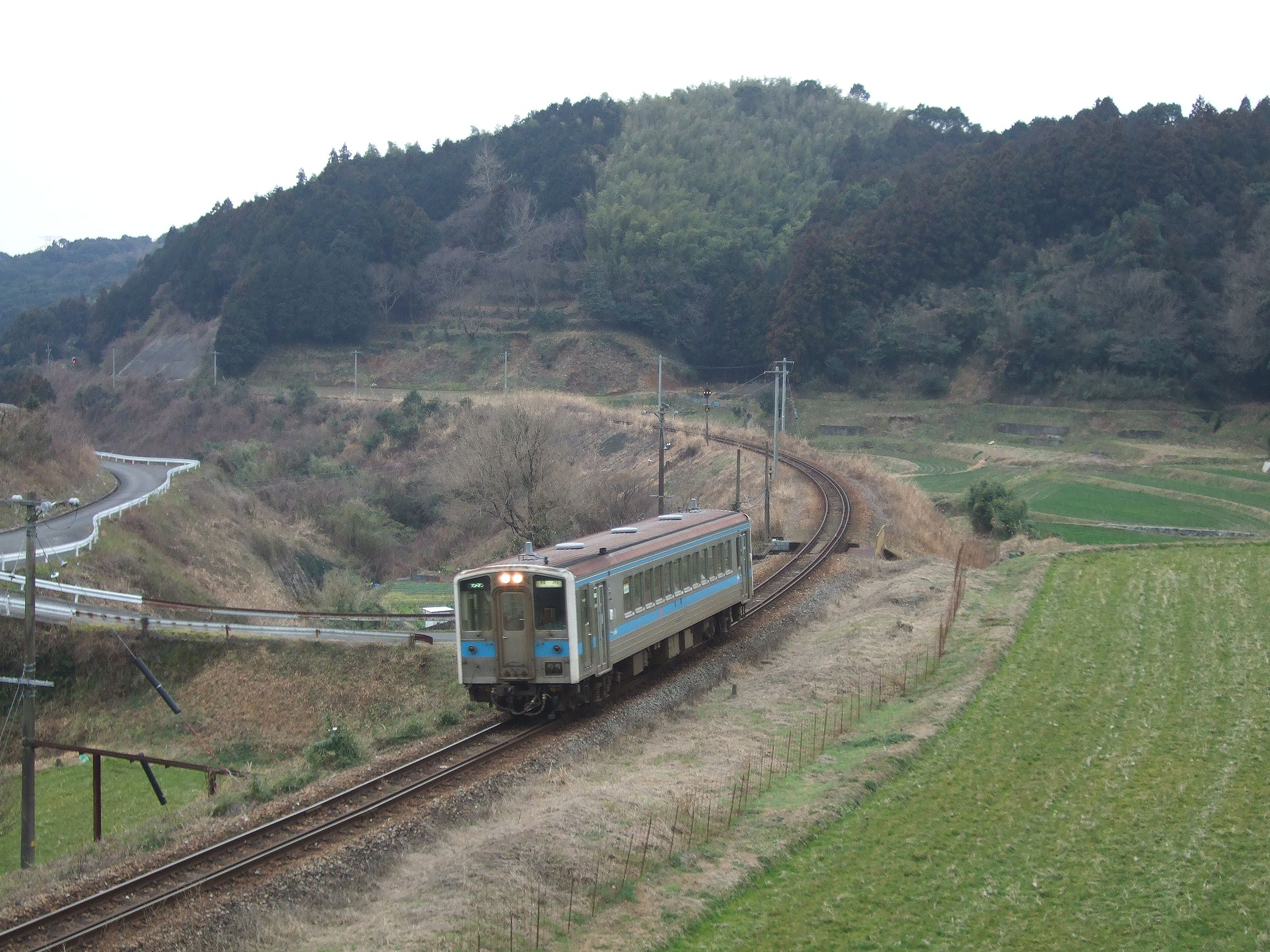 JRKyushu DMU kiha31 on the Chikuho Main Line between Chikuzen-Uchino and Chikuzen-Yamae stations